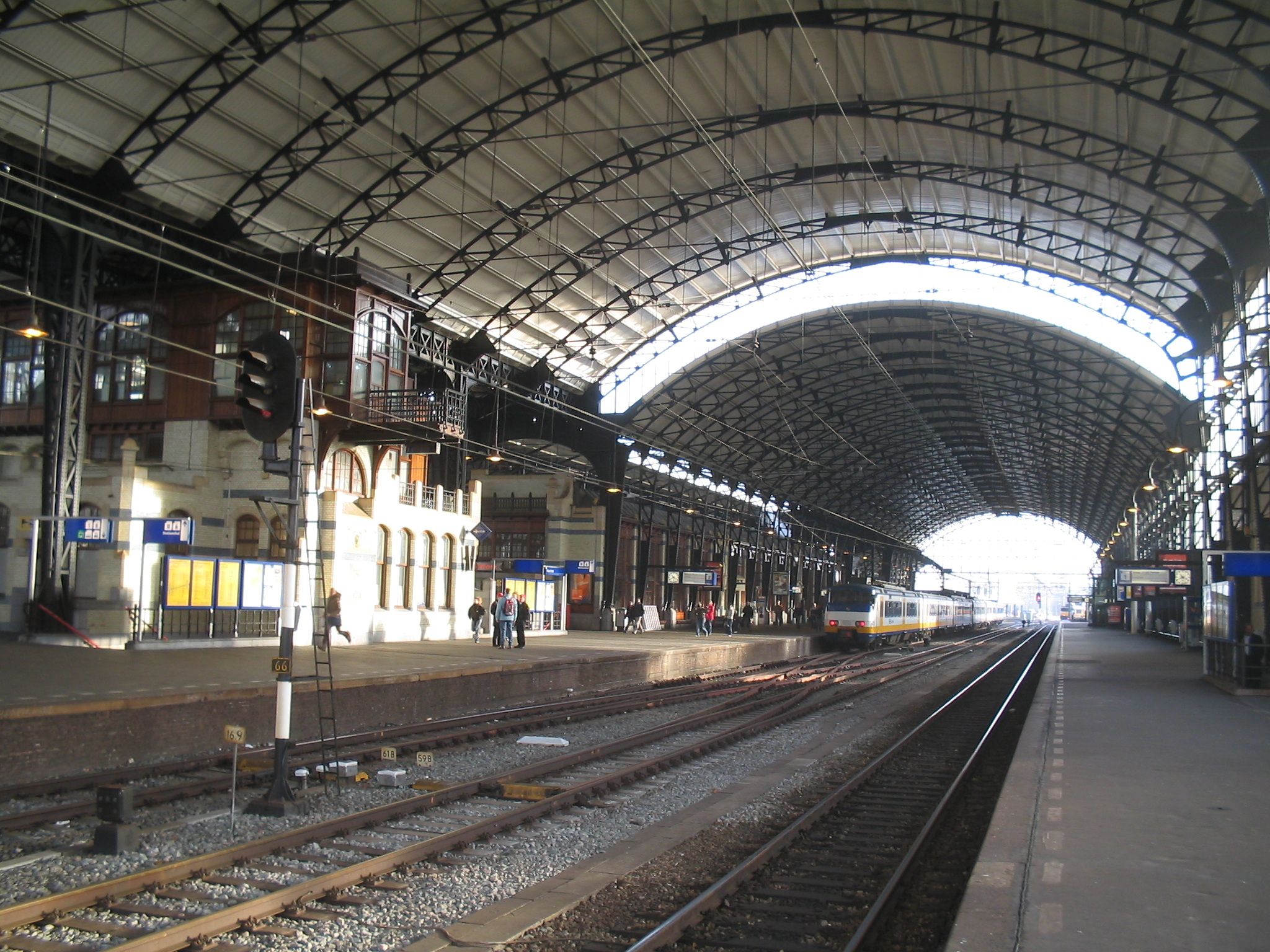 The interior of station Haarlem as seen from platform 1